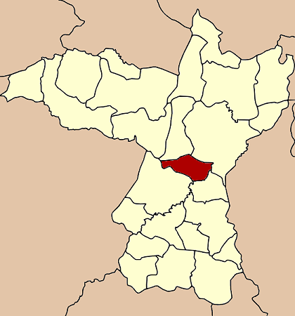 Map of Khon Kaen Province, Thailand, highlighting the district Phra Yuen (อำเภอพระยืน)